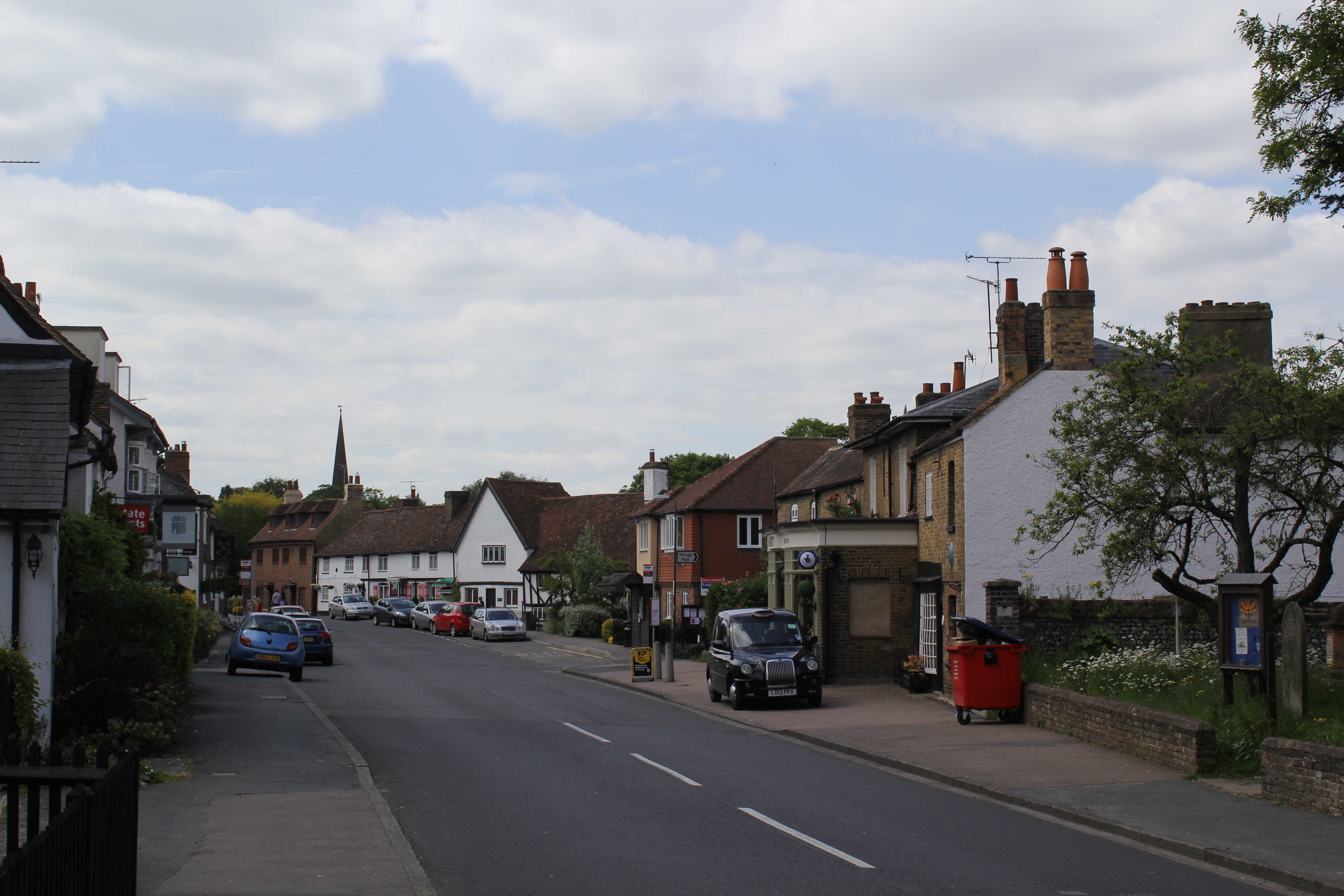 Looking south east down Eynsford High Street